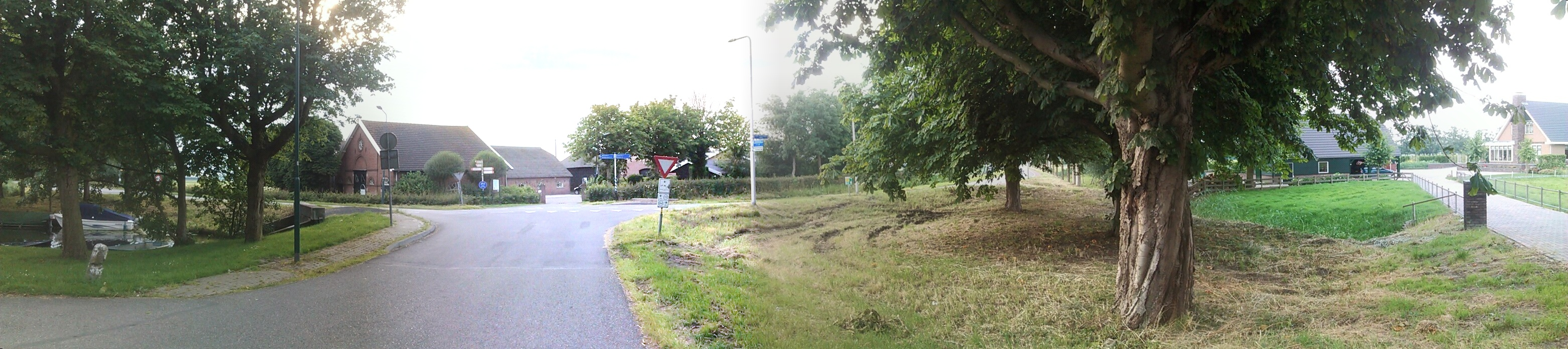 The junction with Kruipin